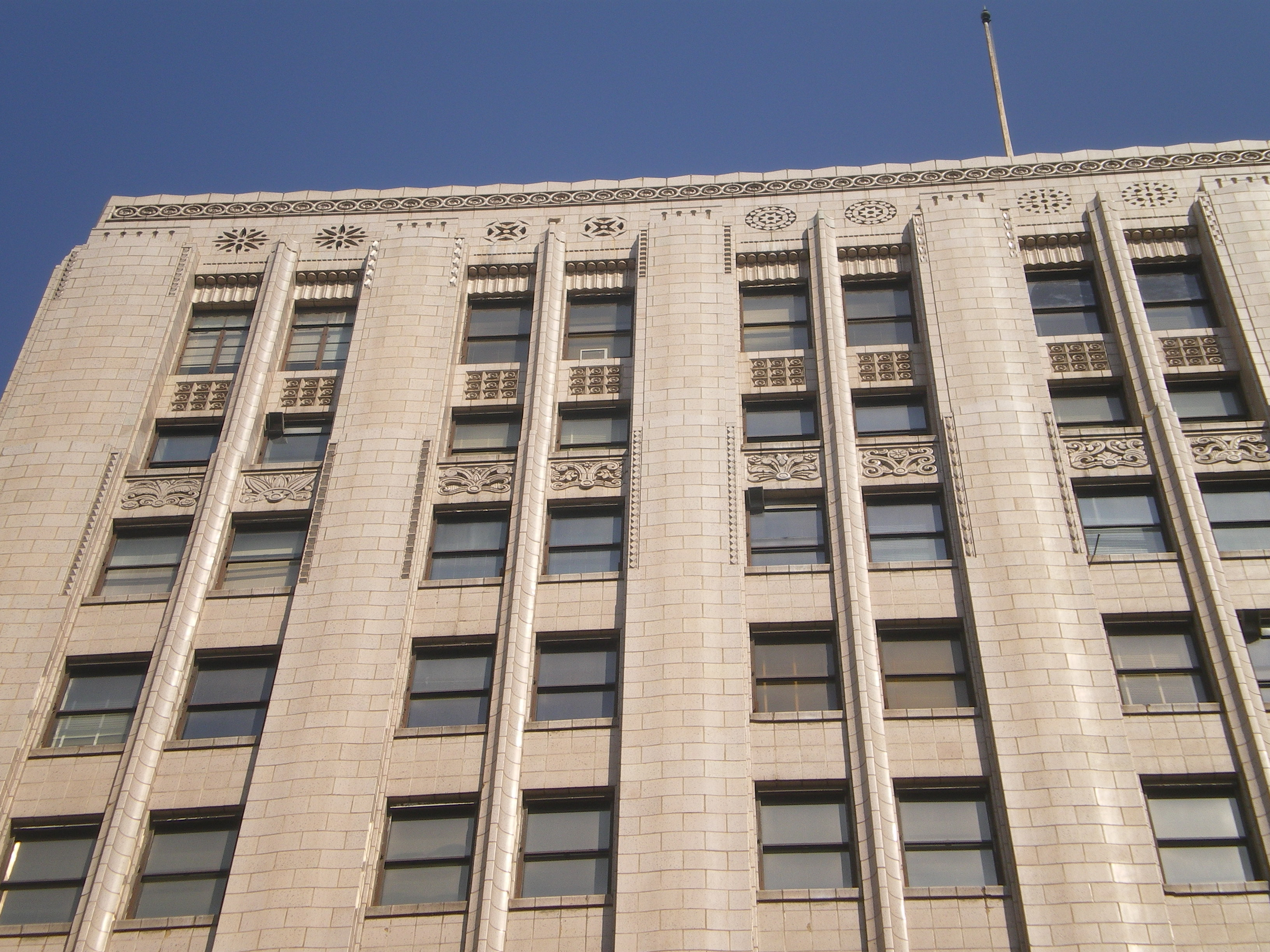 Title Insurance Building — 433 S. Spring St., Downtown Los Angeles, California. Historic district contributing property of the Spring Street Financial District, a historic district on the National Register of Historic Places in Los Angeles.